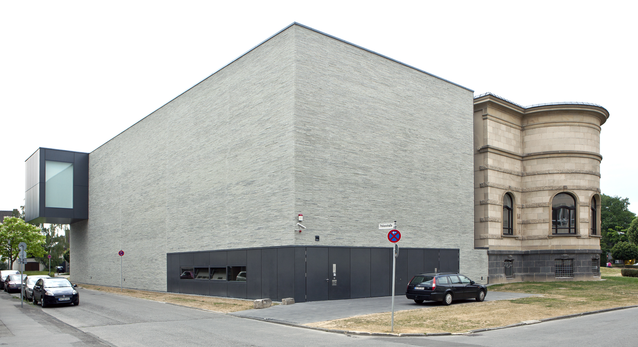 Modern annex to Leopold-Hoesch-Museum, Dueren